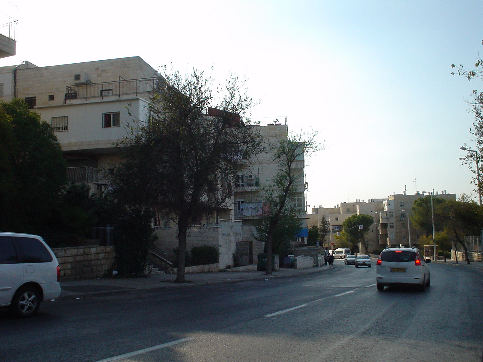 North Jerusalem, Sanhedriya neighborhood, Yam Suf st.